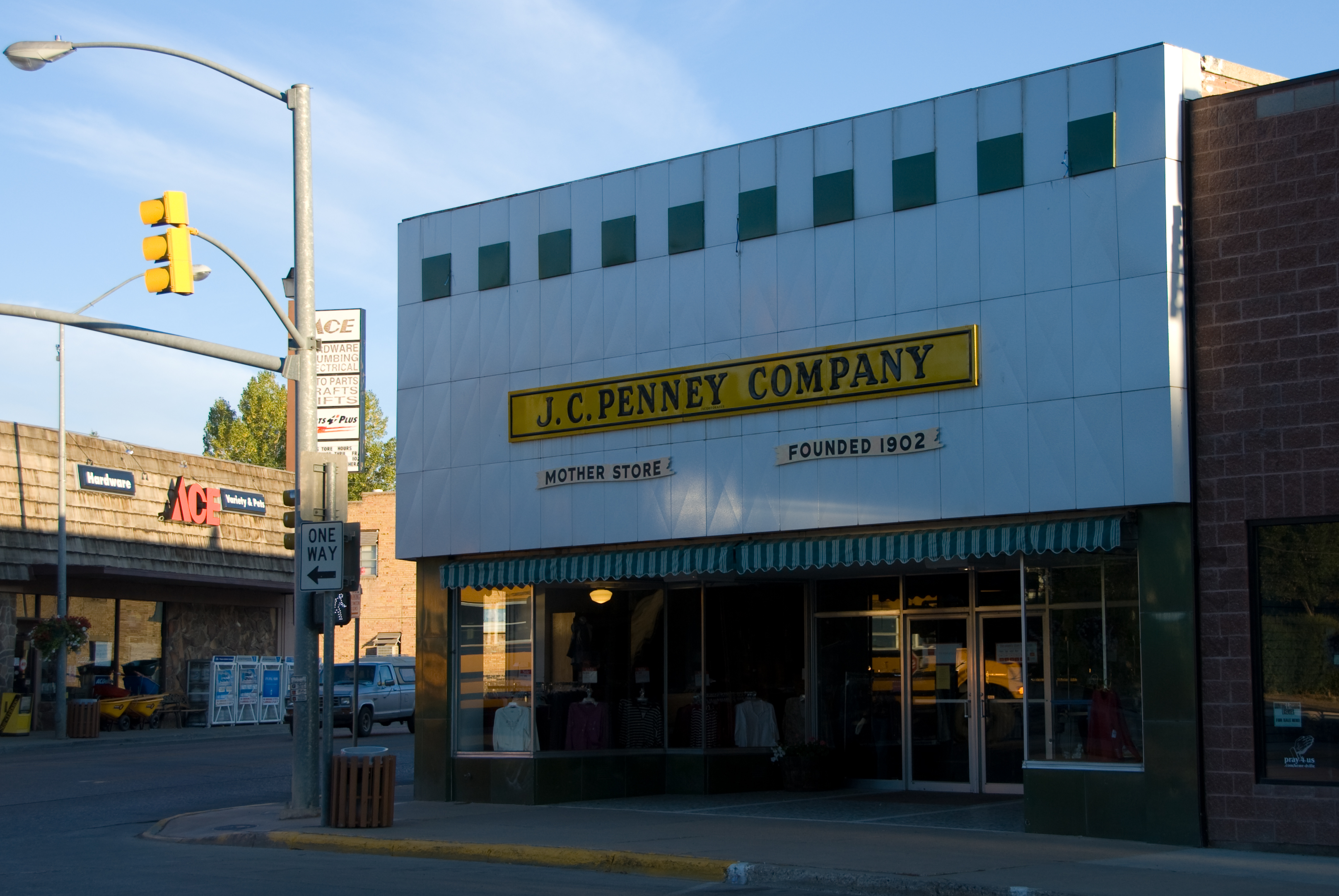 The picture shows the J.C. Penney mother store in Kemmerer, Lincoln County, Wyoming